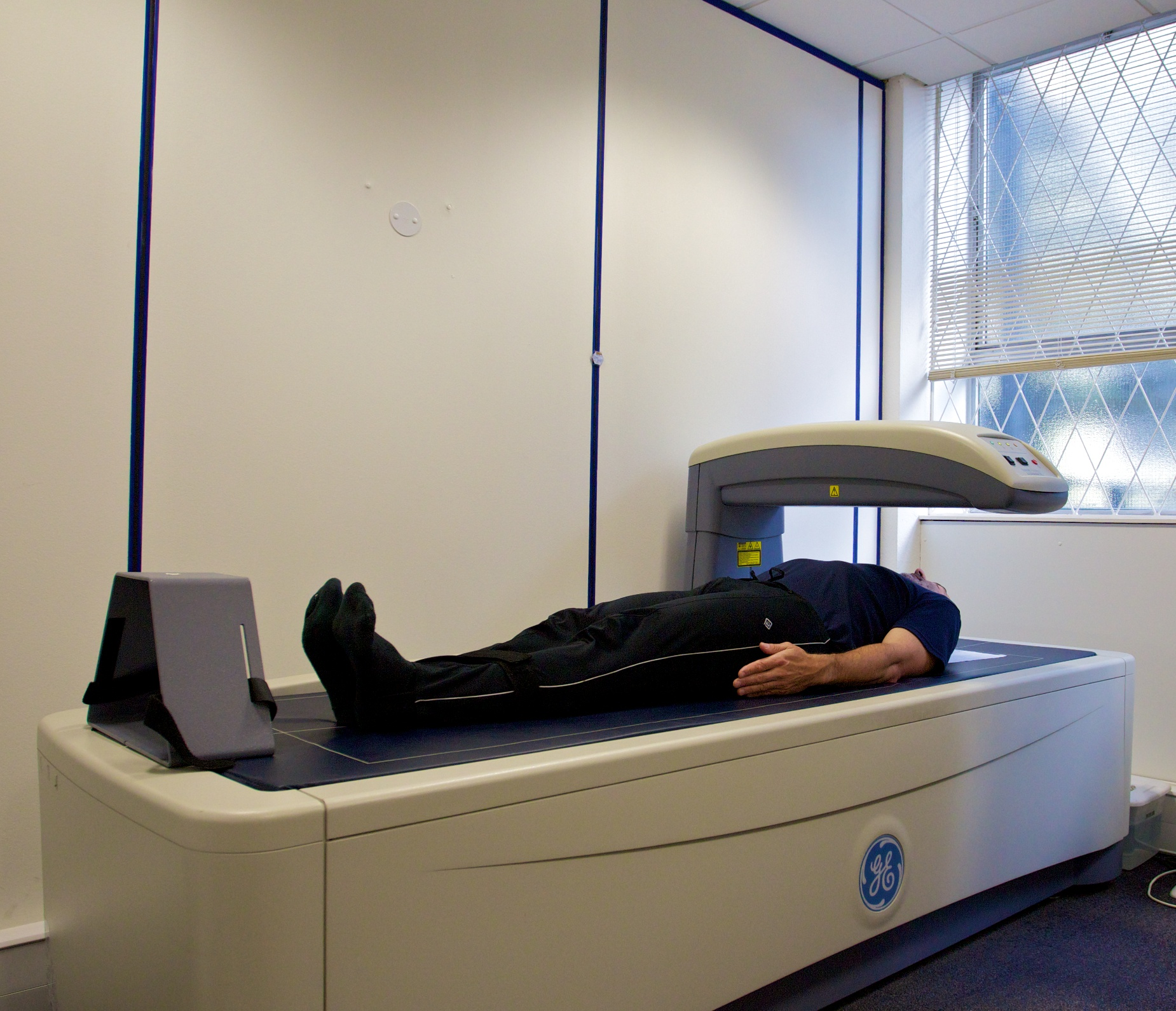 A Dual-energy X-ray absorptiometry (DEXA) scan being administered at the Avon Longitudinal Study of Parents and Children (ALSPAC) clinic in Bristol, UK. A man lies on the scanner while the arm of the scanner moves over him, taking a full scan of his body tissue density.